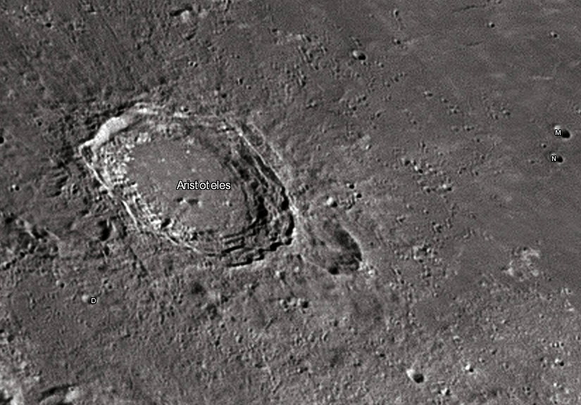 Aristoteles lunar crater as seen from Earth with satellite craters labeled